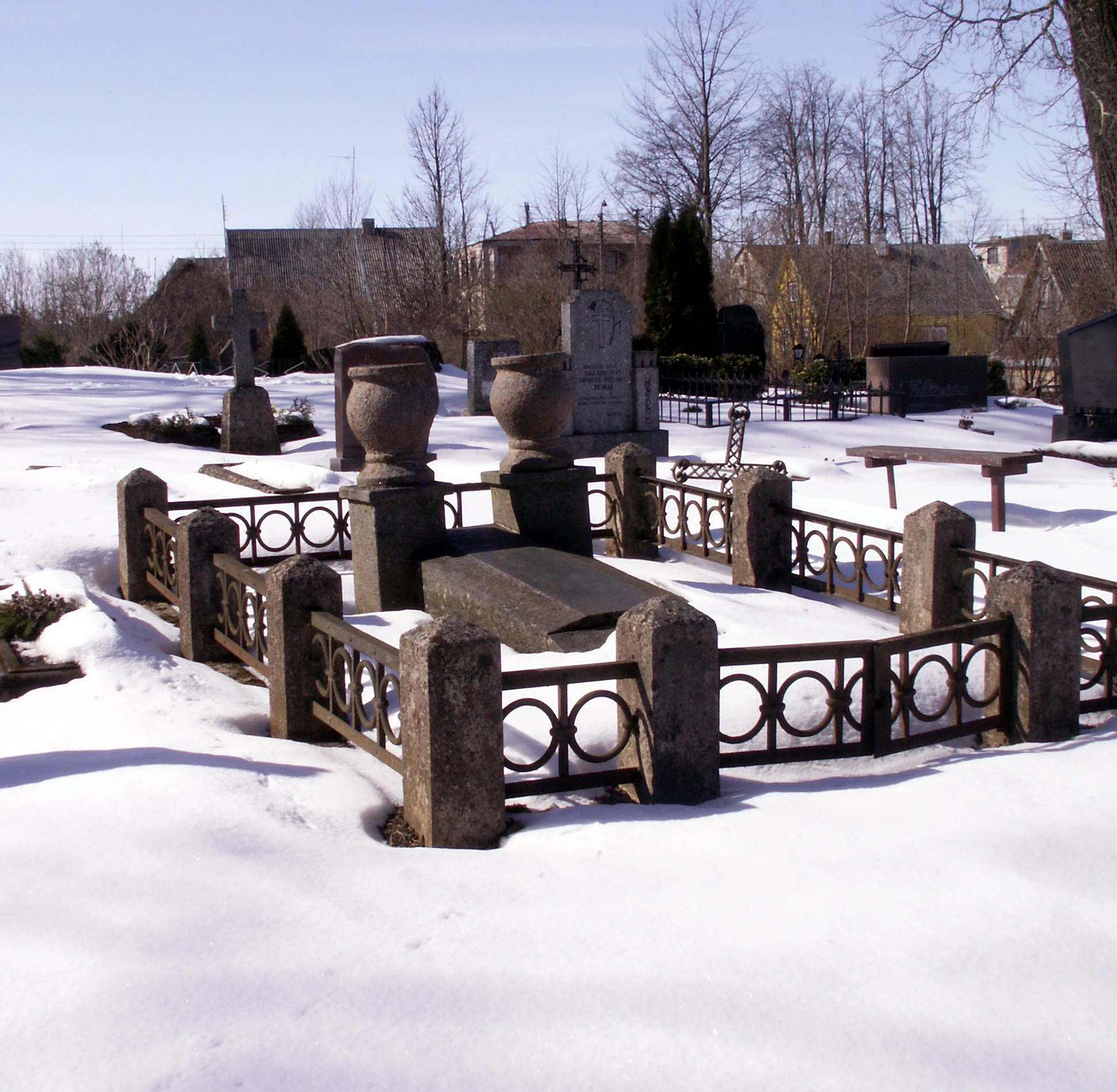 Grave of general Stasys Nastopka in Biržai, Lithuania